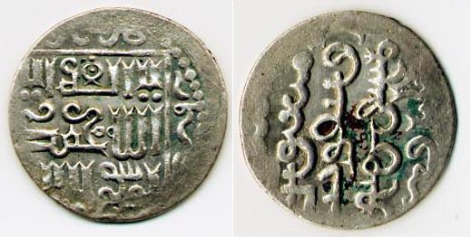 A coin from the reign of Baydu Khan (1295). Obverse inscription: "Qaghanu nreber Baydu-yin deledkegülüg. Baydu.".